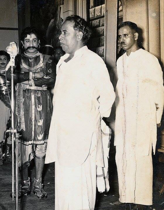 Sakthi TK Krishnasamy with the then Tamilnadu CM C.N. Annadurai and Sivaji Ganesan